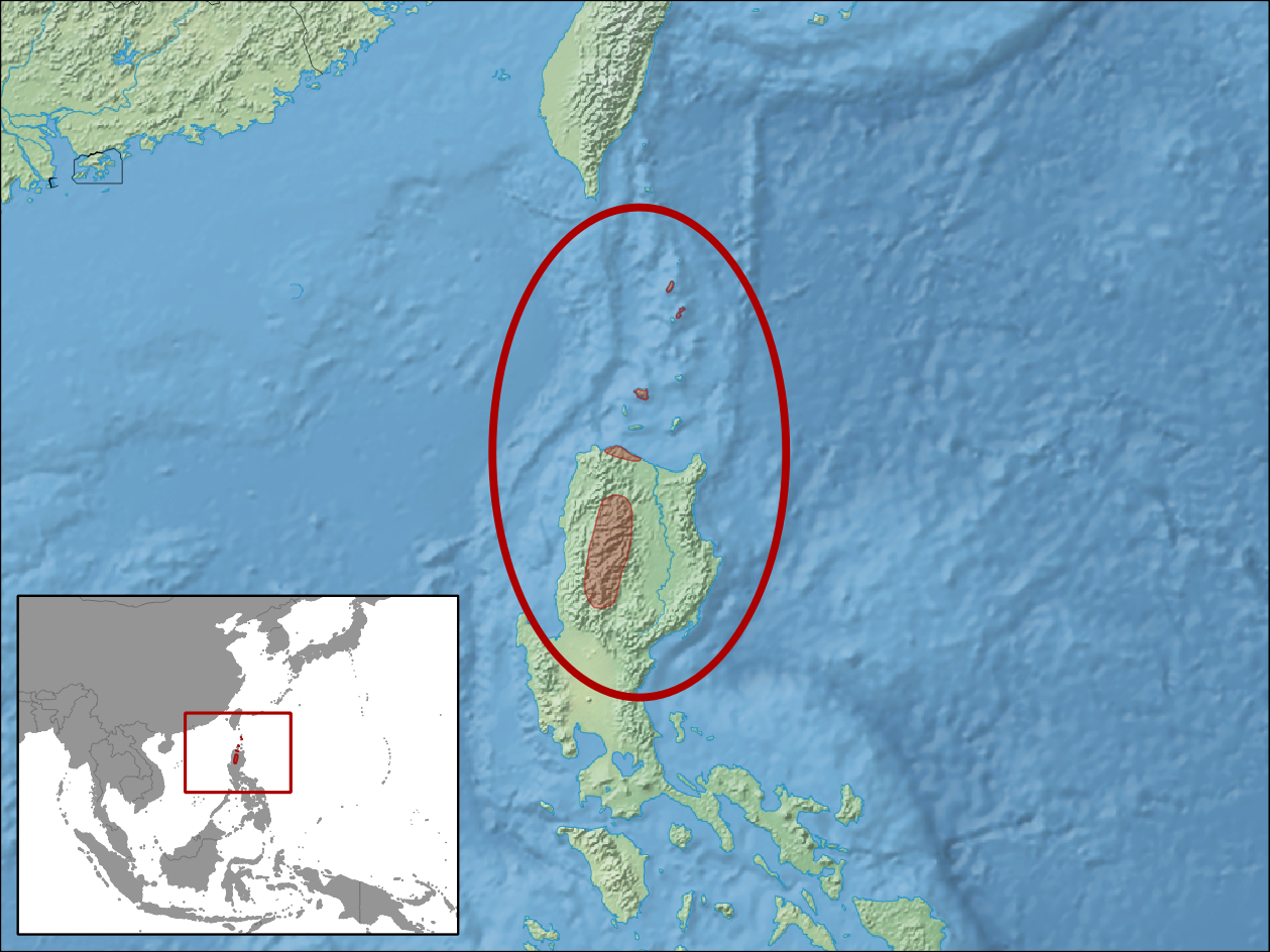 geographic distribution of Eutropis bontocensis